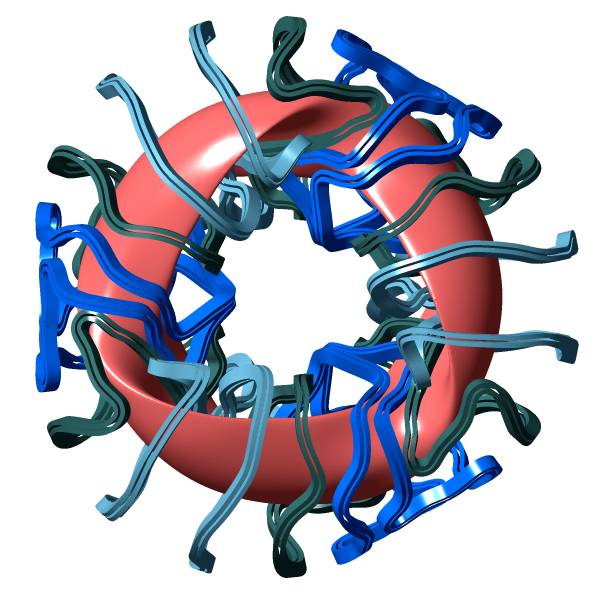 CAD drawing of the National Compact Stellarator Experiment (NCSX) showing the modular coils as well as the predicted shape of the plasma. The three field-periods can be clearly seen.